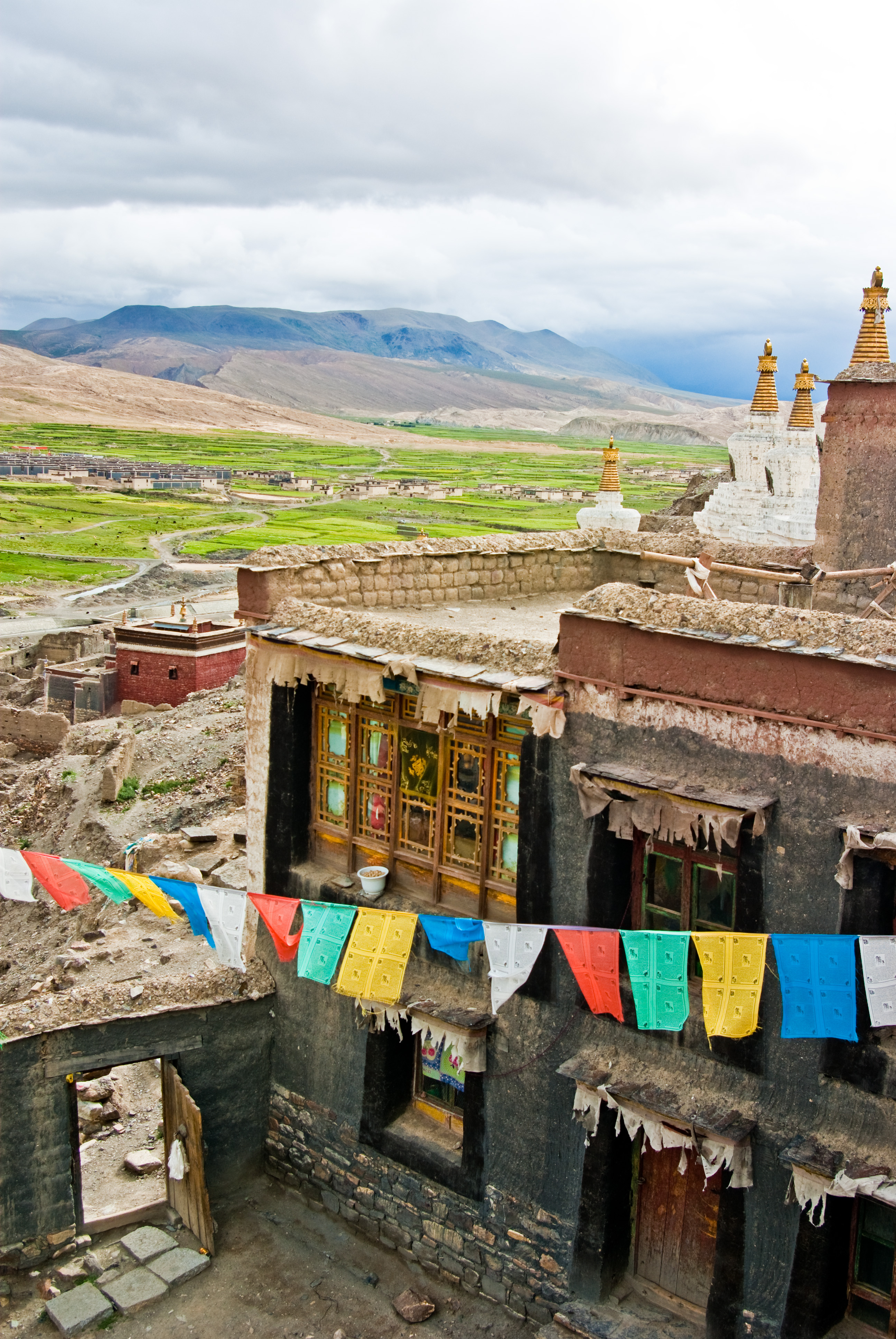 A house in sakya (tibet)